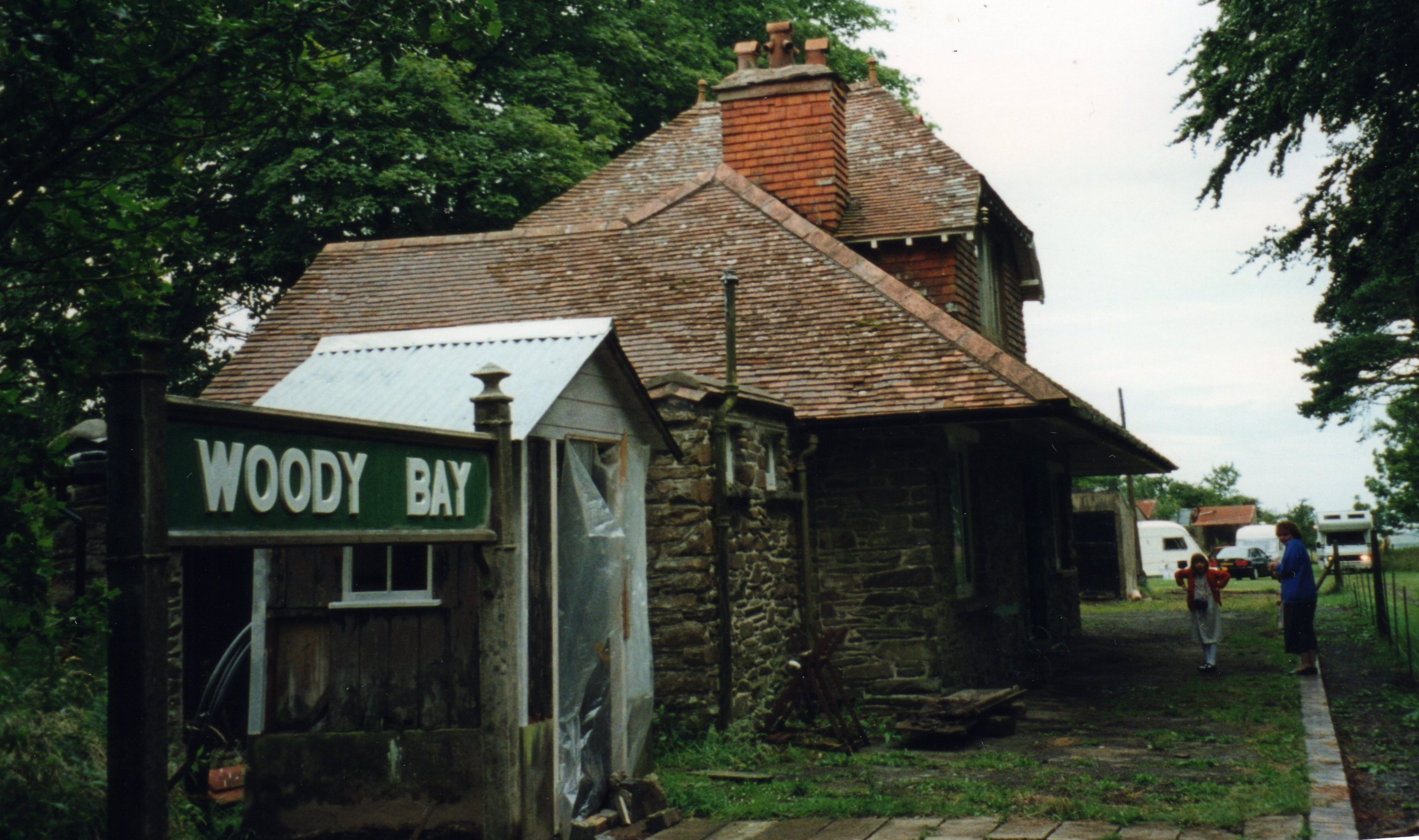 Woody Bay Station Platform, Building, and partly restored signal box in 1996 Photograph taken by: Martyn de Young